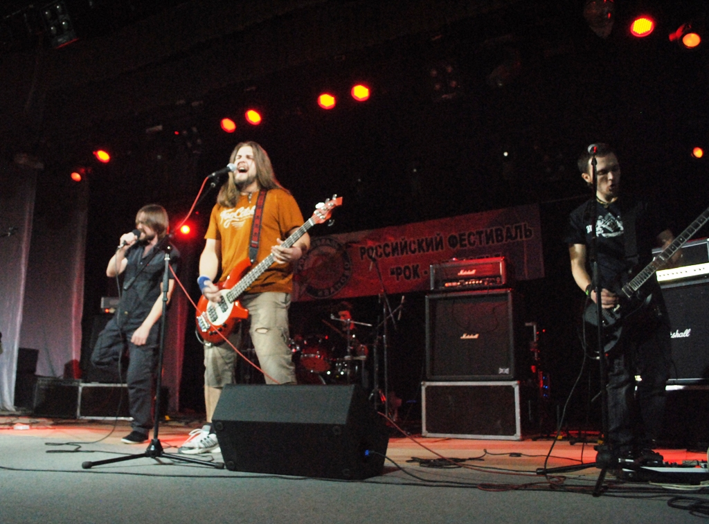 Музыканты X Всероссийского фестиваля «Рок-Февраль — 2014»